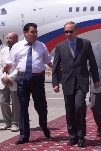 ASHGABAT. President Putin and Turkmen President Saparmurat Niyazov at the airport.